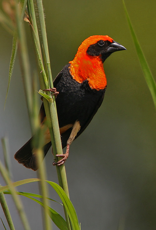 Image taken at Pirang, Western Division, The Gambia. An attractive Bishop of moist grassland. This is an adult breeding plumage male -these birds are only in this plumage for a few months each year (August-late October in The Gambia).